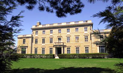 Cardinal Mansion, Boston College.